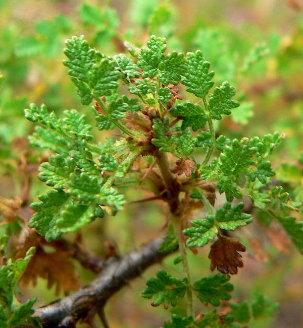 Photo of Rosa minutifolia at the Regional Parks Botanic Garden